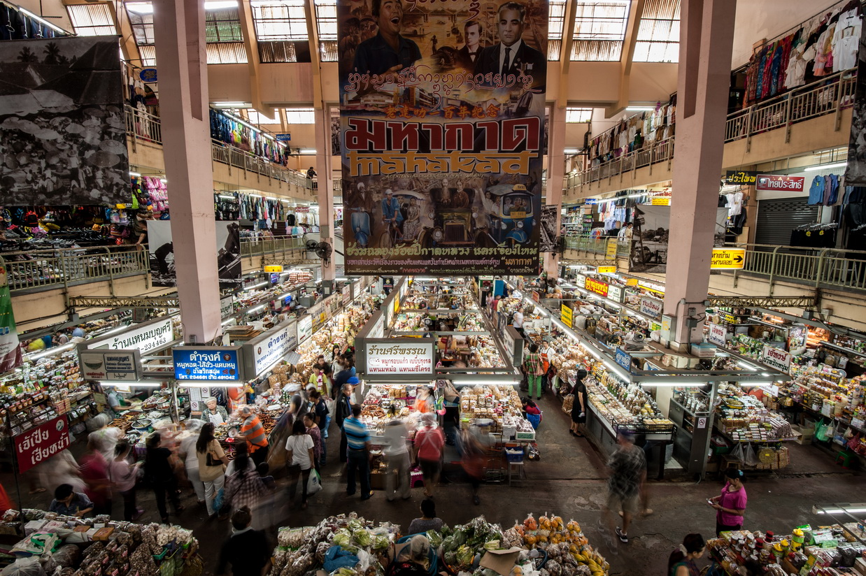 Warorot market (Kat in northern Thai word) is "The Great Kat" which shows the everyday life as a social acquaintance, simple, convenient and economical. Diversity in agricultural products create colorful flower market from dawn to late night.